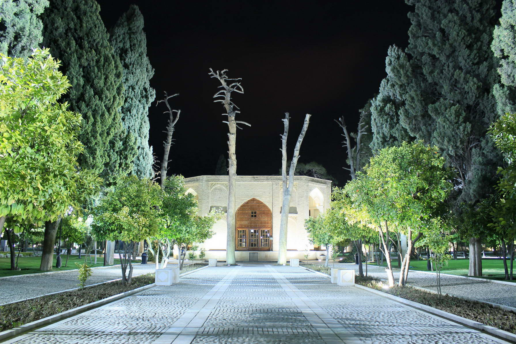 The Jahannama Garden,Shiraz This is an own work and released in public domain by the user:Sahehco